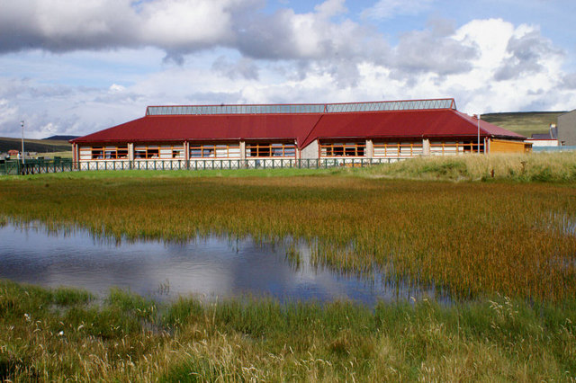 Trolla Water and Baltasound Junior High School This is the new wing of the school, which opened in 1995.